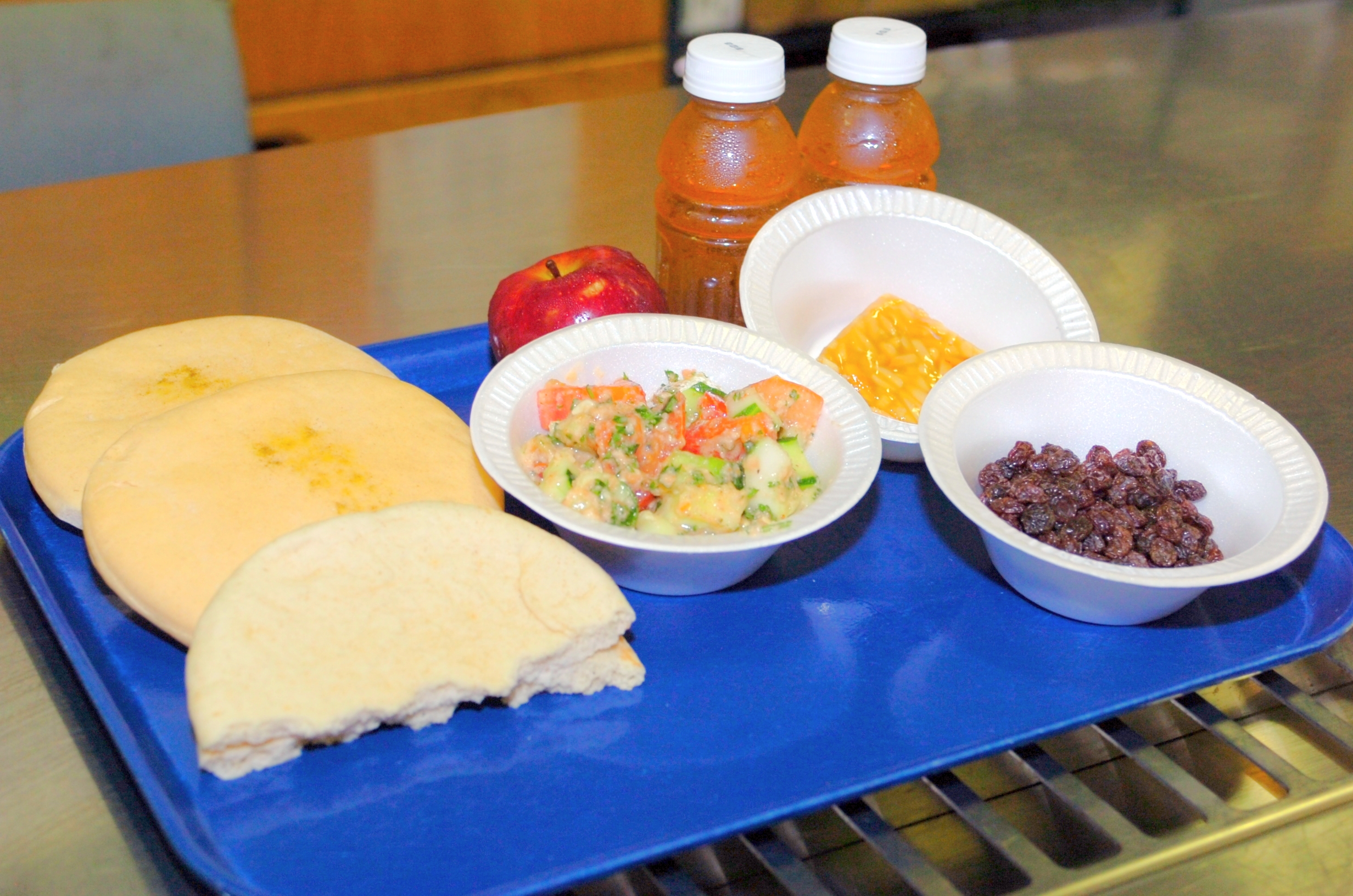 This ethnic meal of fresh pita bread, sweets, fruit, juice and rice with shrimp and vegetables will be served to enemy combatants detained by Joint Task Force Guantanamo as part of their Ramadan observance, beginning Sept. 1, 2008. It is traditional for those celebrating the Islamic holy month of Ramadan to observe fasting from sunrise to sundown. (JTF Guantanamo photo by Army Spc. Megan Burnham)